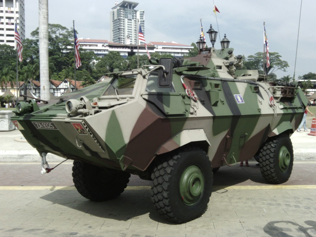 Malaysian Condor on exhibition during Malaysian Armed Forces 80th anniversary.